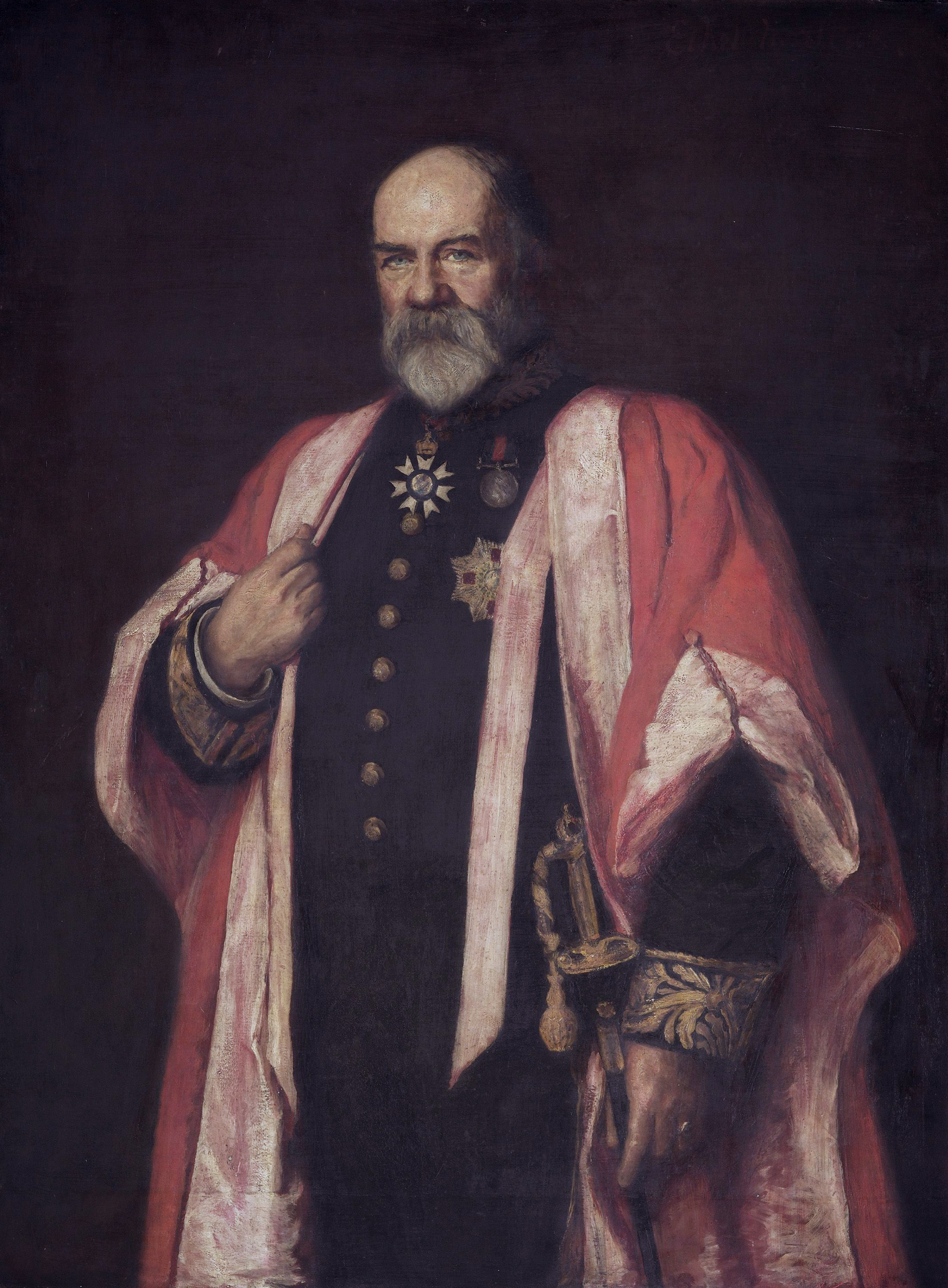 Portrait of Sir Walter Buller, circa 1903, London, by Ethel Mortlock. Purchased 1967 from Wellington City Council Picture Purchase Fund. Te Papa (1967-0028-1)